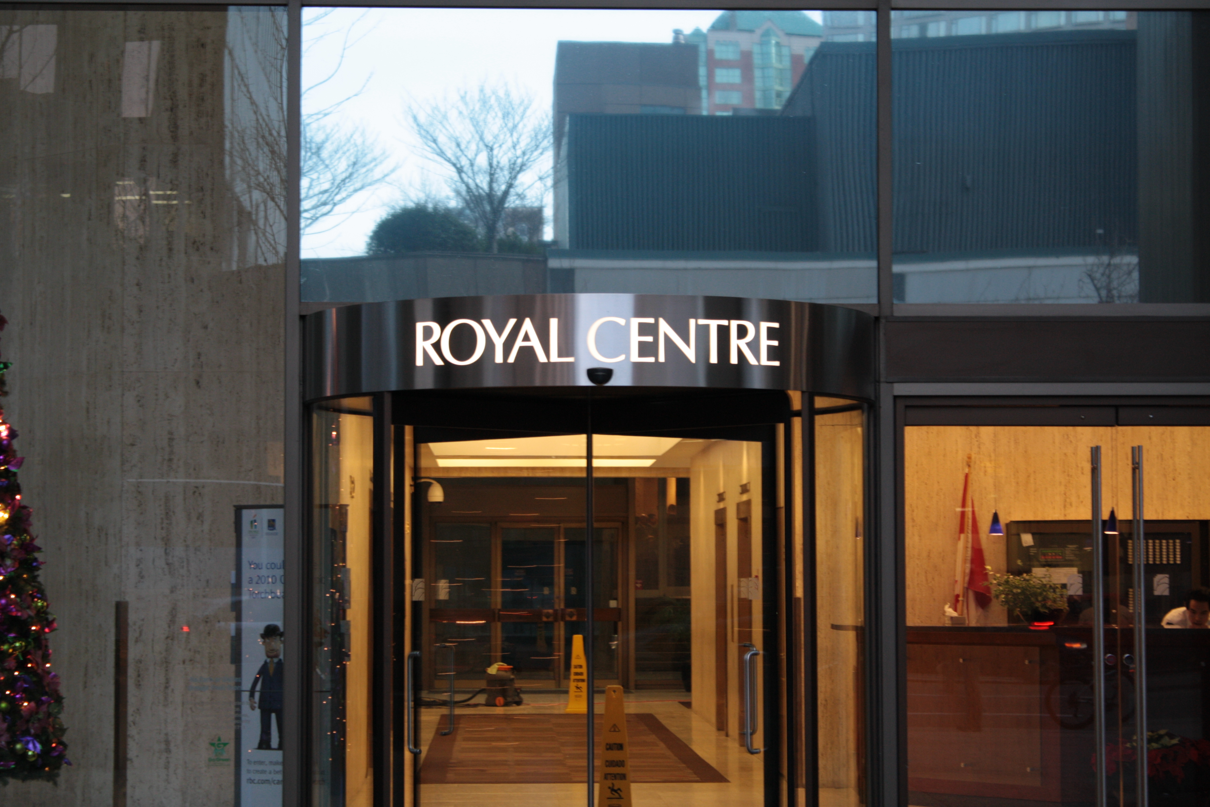 Royal Centre entrance, Vancouver.